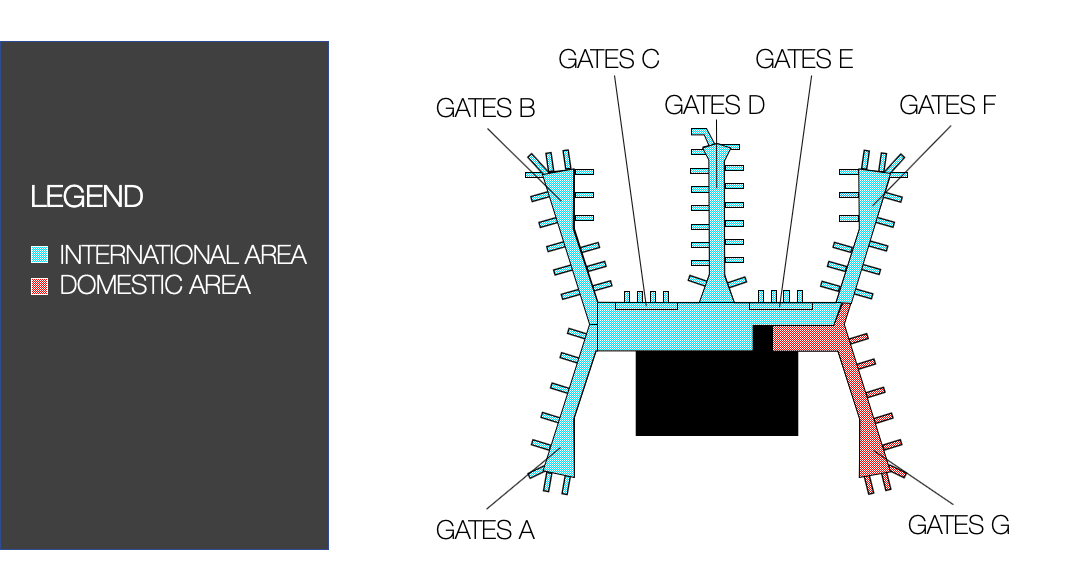 A sketch of the terminal building with the the sides (domestic and international) and the gate areas.